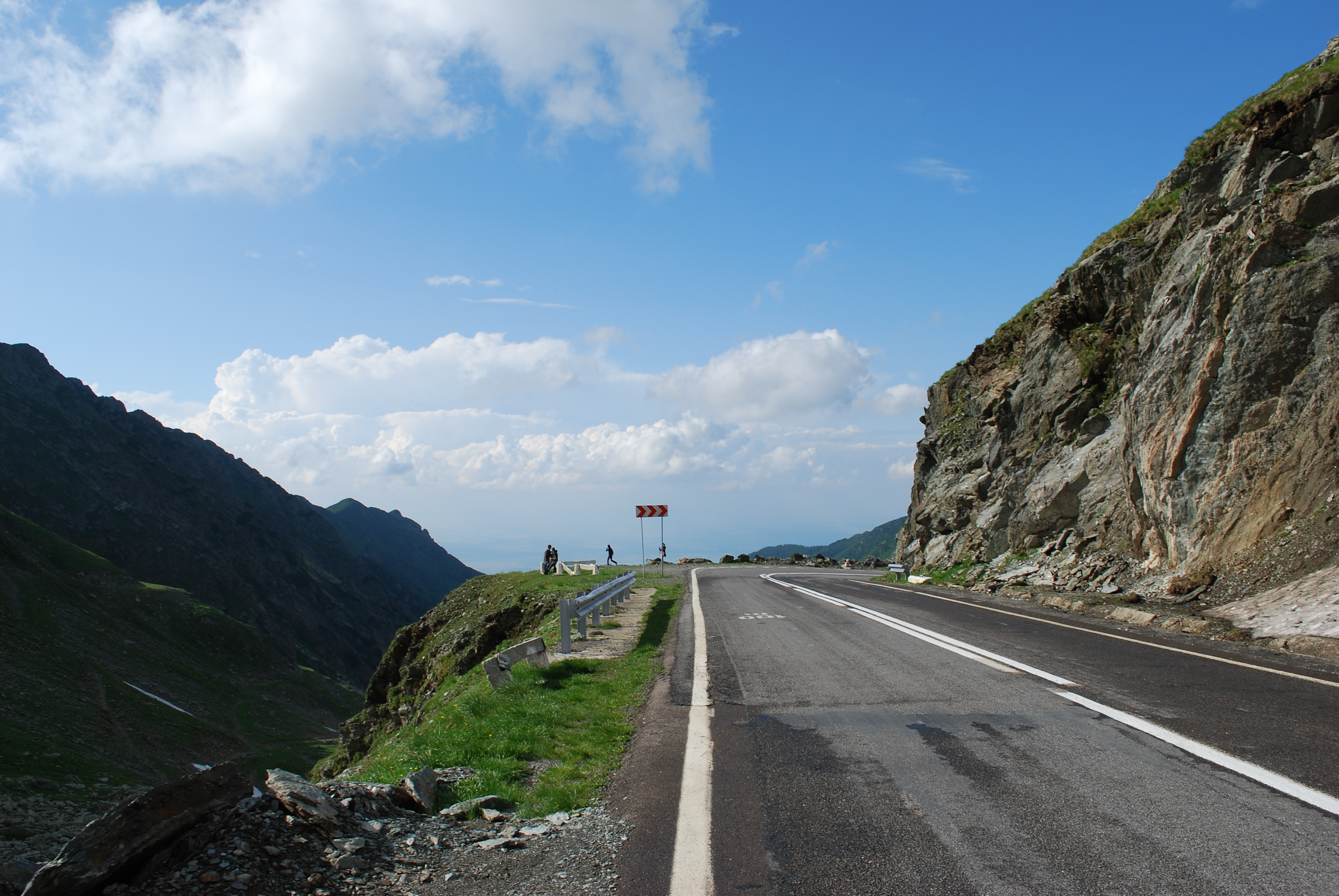 The Transfăgărăşan road in Romania, near Lake Bâlea